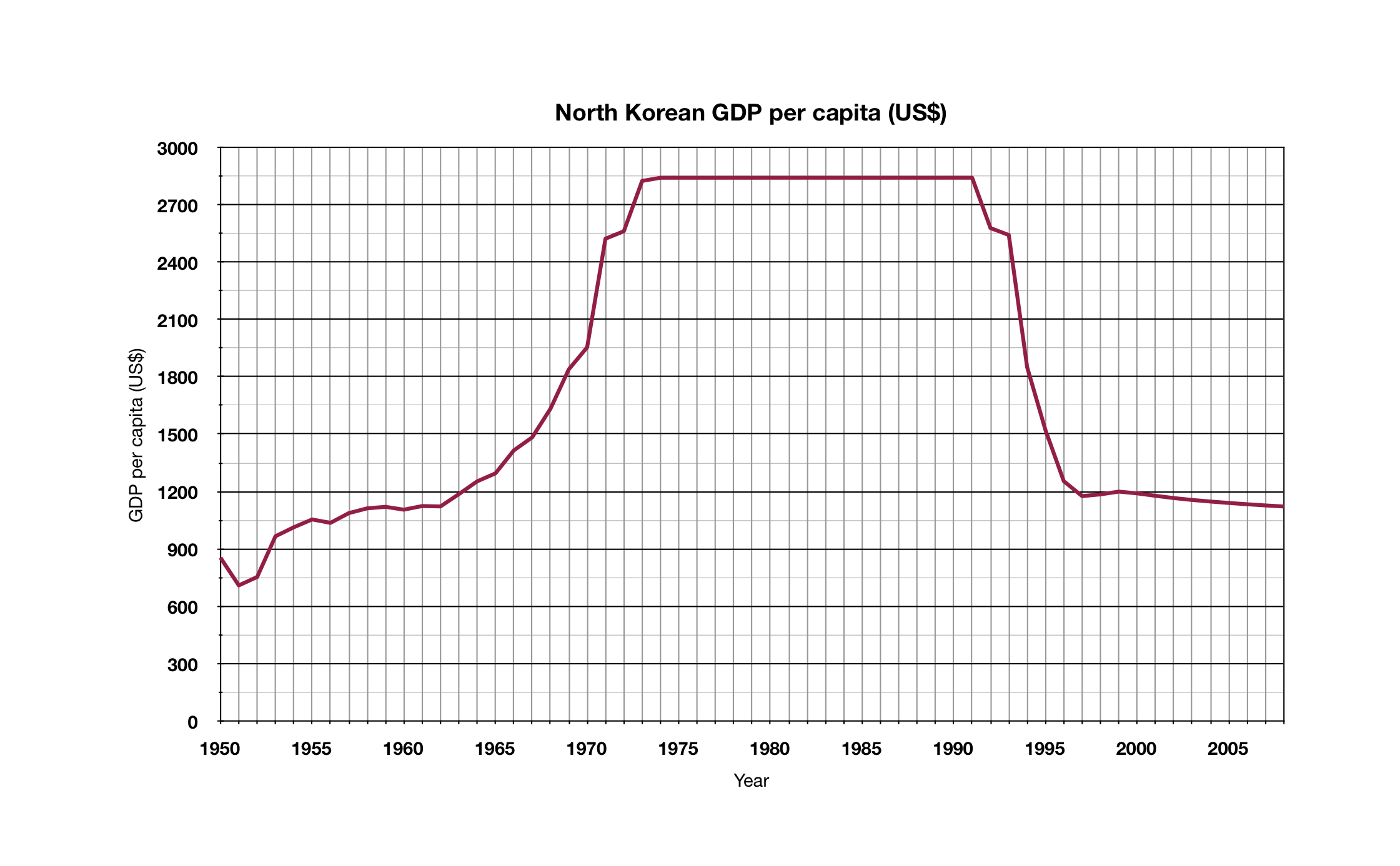 GDP per Capita in US$ (1950-2008) of North Korea, based on Maddison